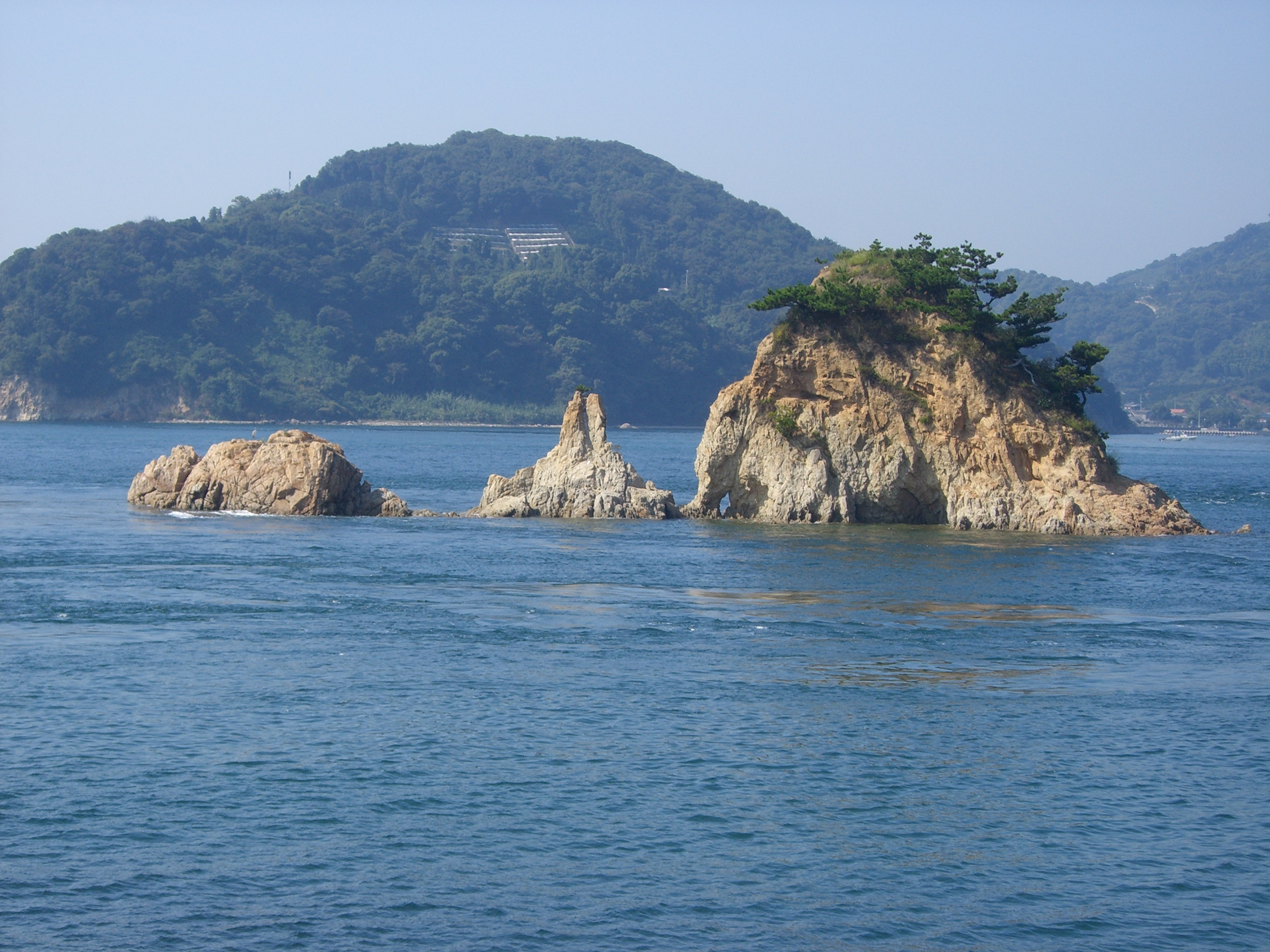 Shiju-shima (Turner Island) Actually named "Shiju-shima", this island's nickname was taken from Natsume Soseki's famous novel "Botchan". There's a passage that says "look at those trees over yonder ... looks like a Turner painting". (Ehime,JAPAN)